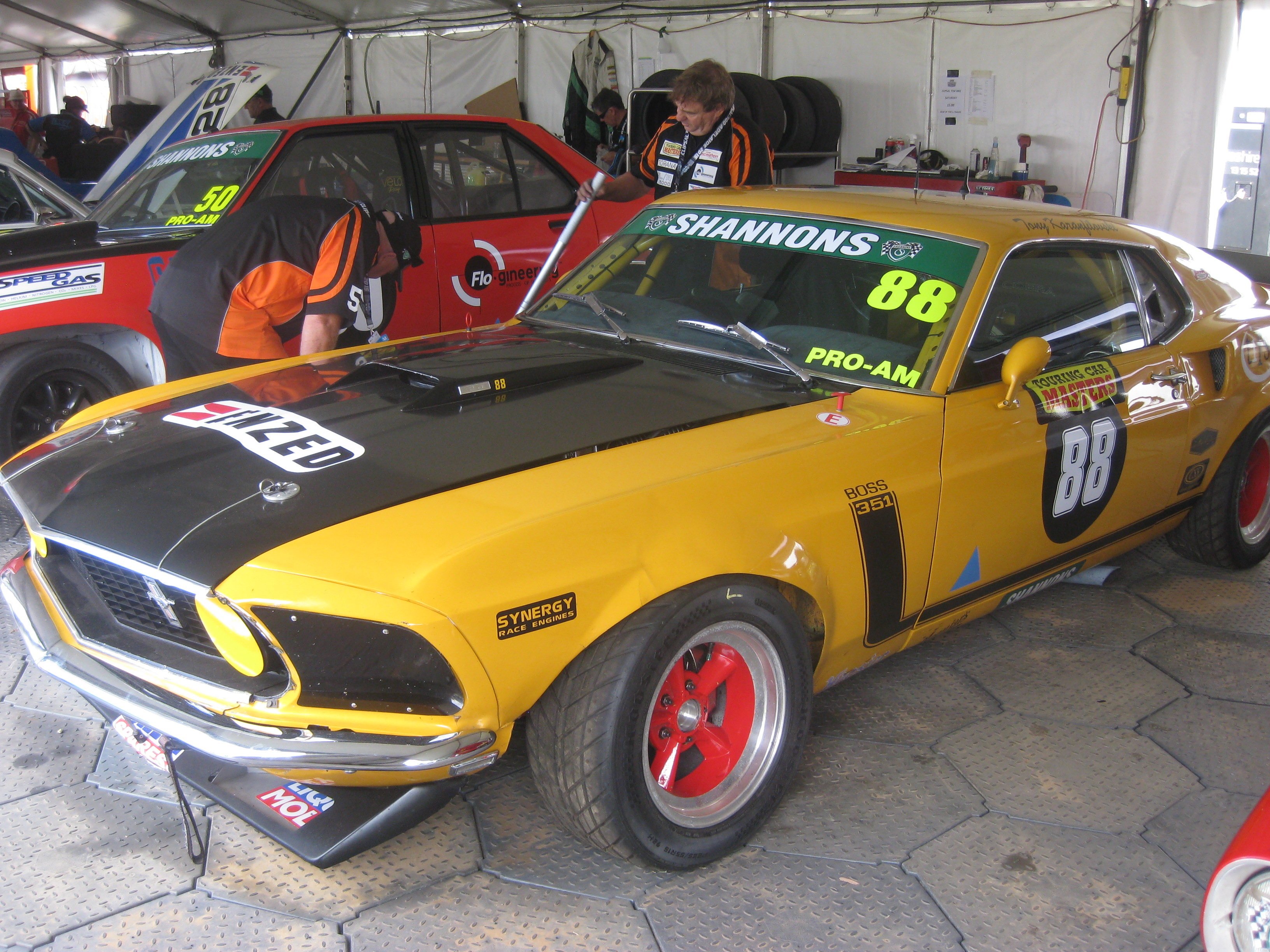 The 1969 Ford Mustang of Tony Karanfilovski at the opening round of the 2015 Touring Car Masters